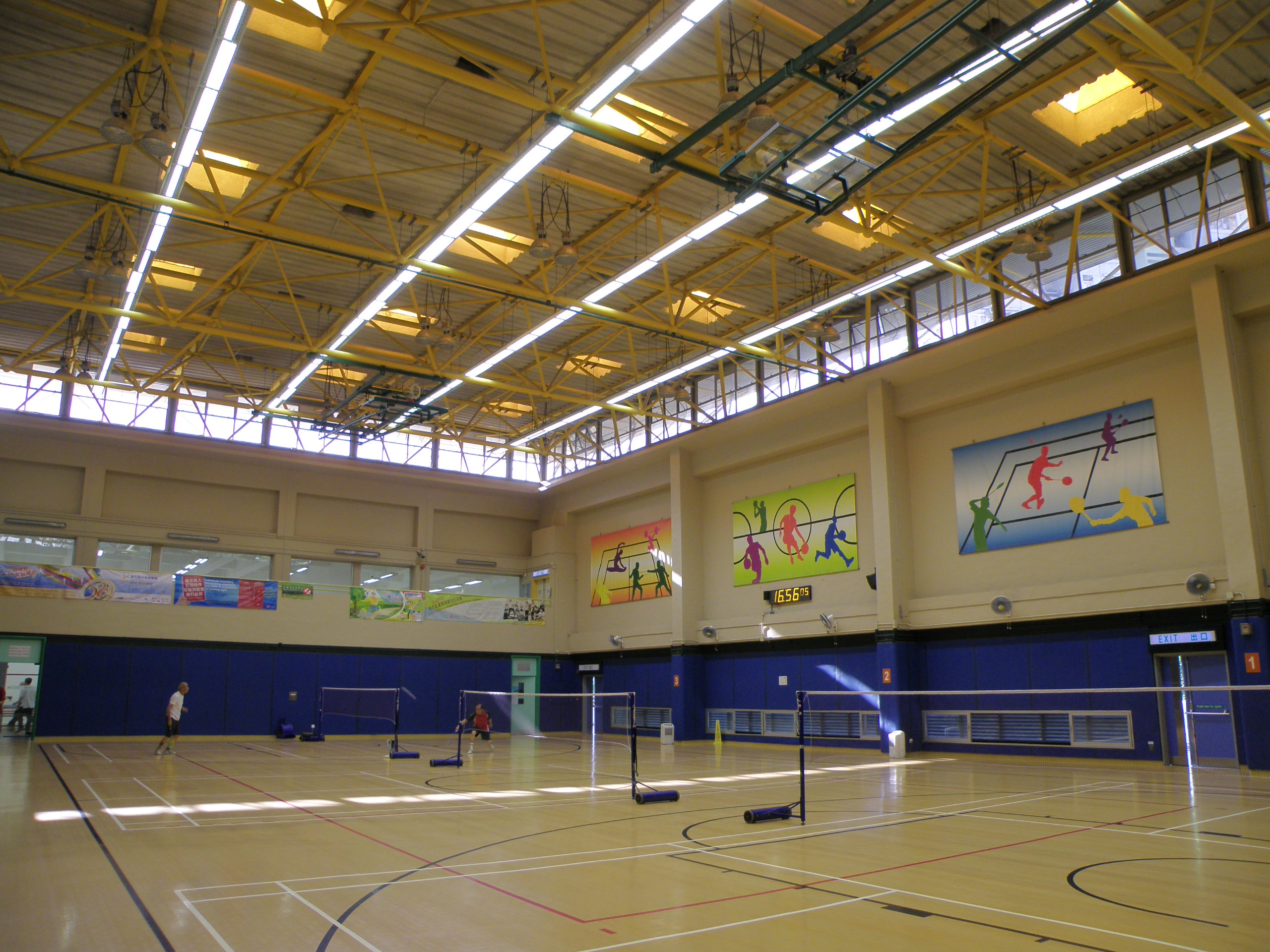 Po Lam Sports Centre in Tseung Kwan O, Hong Kong.